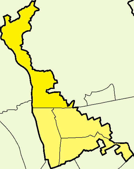 Panthea in Mesa Geitonia.